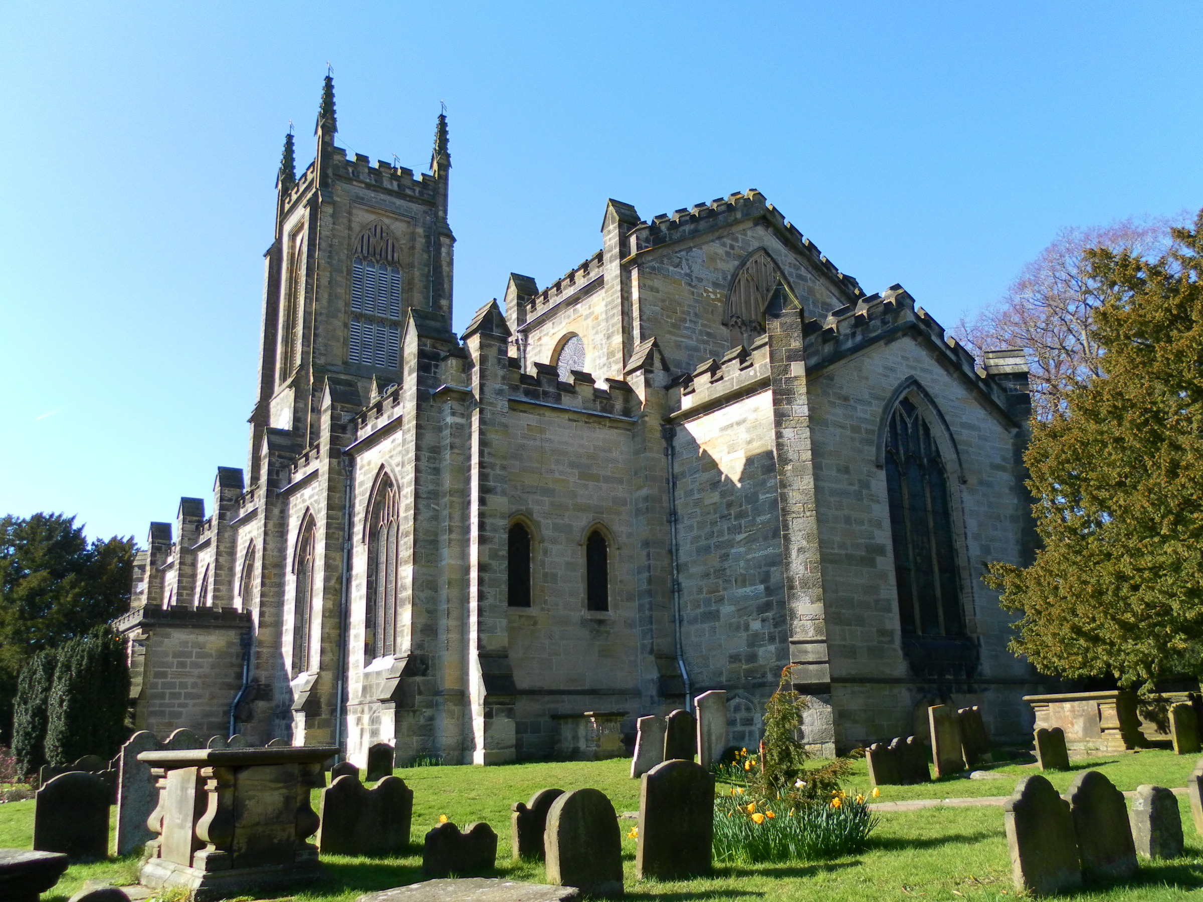 St Swithun's Church, Church Lane, East Grinstead, District of Mid Sussex, West Sussex, England. The parish church of the town of East Grinstead, rebuilt in 1789. Listed at Grade II* by English Heritage (IoE Code 430476)